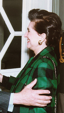 BUENOS AIRES.- EL PRESIDENTE MENEM RECIBIO A LA SRA. FLOR ISAVA FONSECA, MIEMBRO DEL COMITE OLIMPICO INTERNACIONAL DE VENEZUELA.